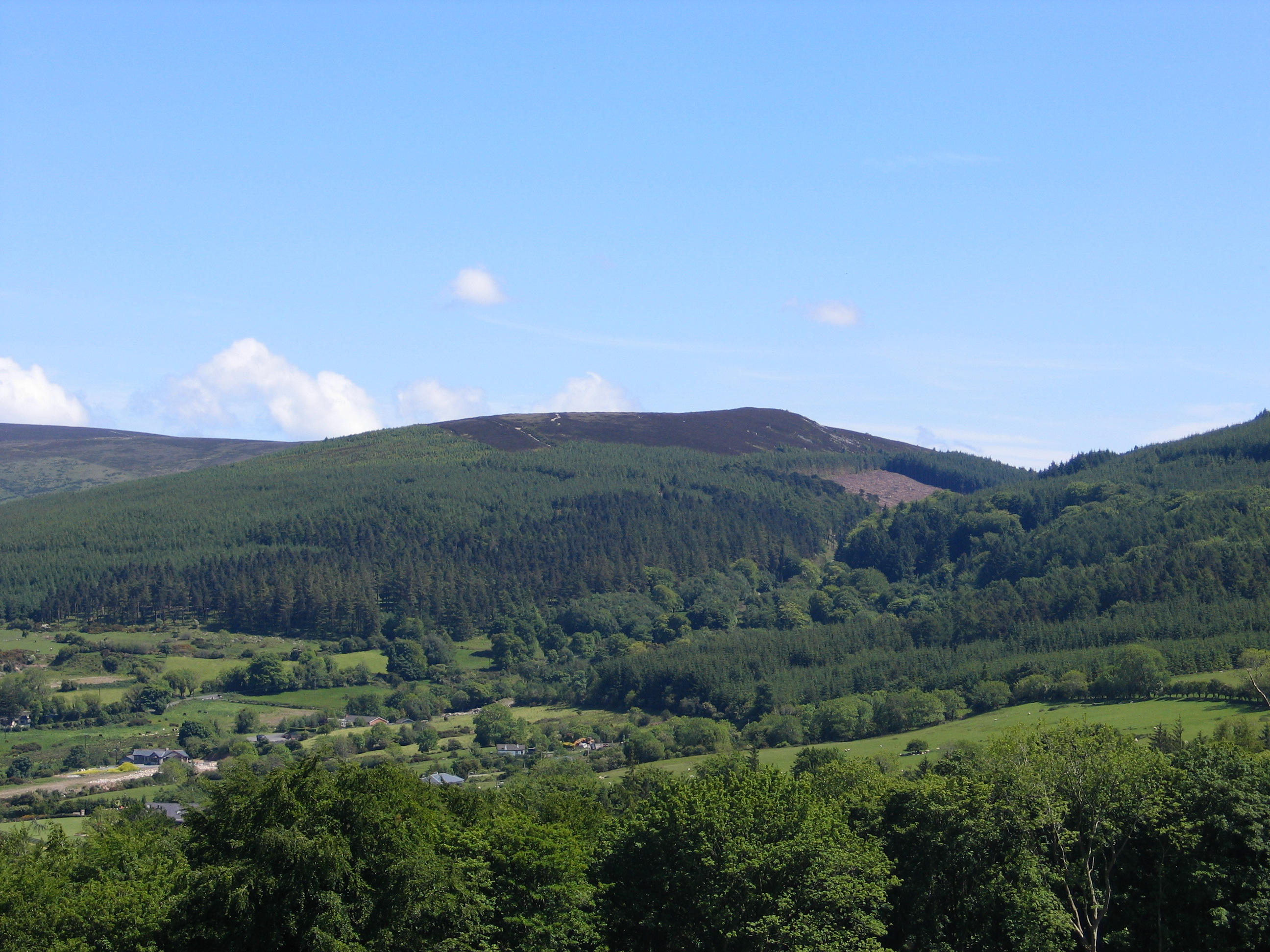 Photograph of Tibradden Mountain, Dublin, Ireland taken from Montpelier Hill in County Dublin in Ireland.